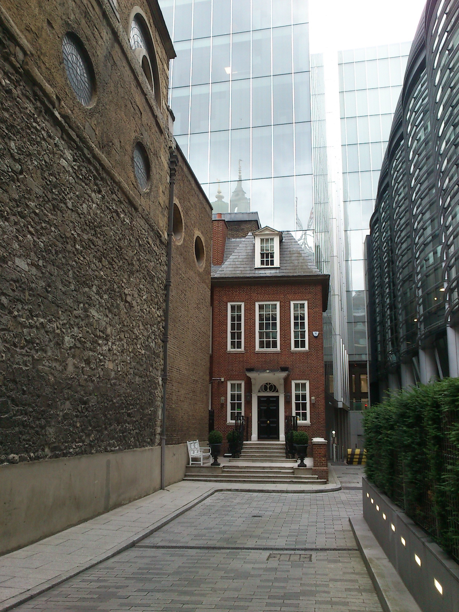 Sandwiched between modern glass-fronted offices is this Queen Anne-style building used for the Walbrook Club. New Court is immediately behind. Seen along the City of London walk: 'Designs of the Times'